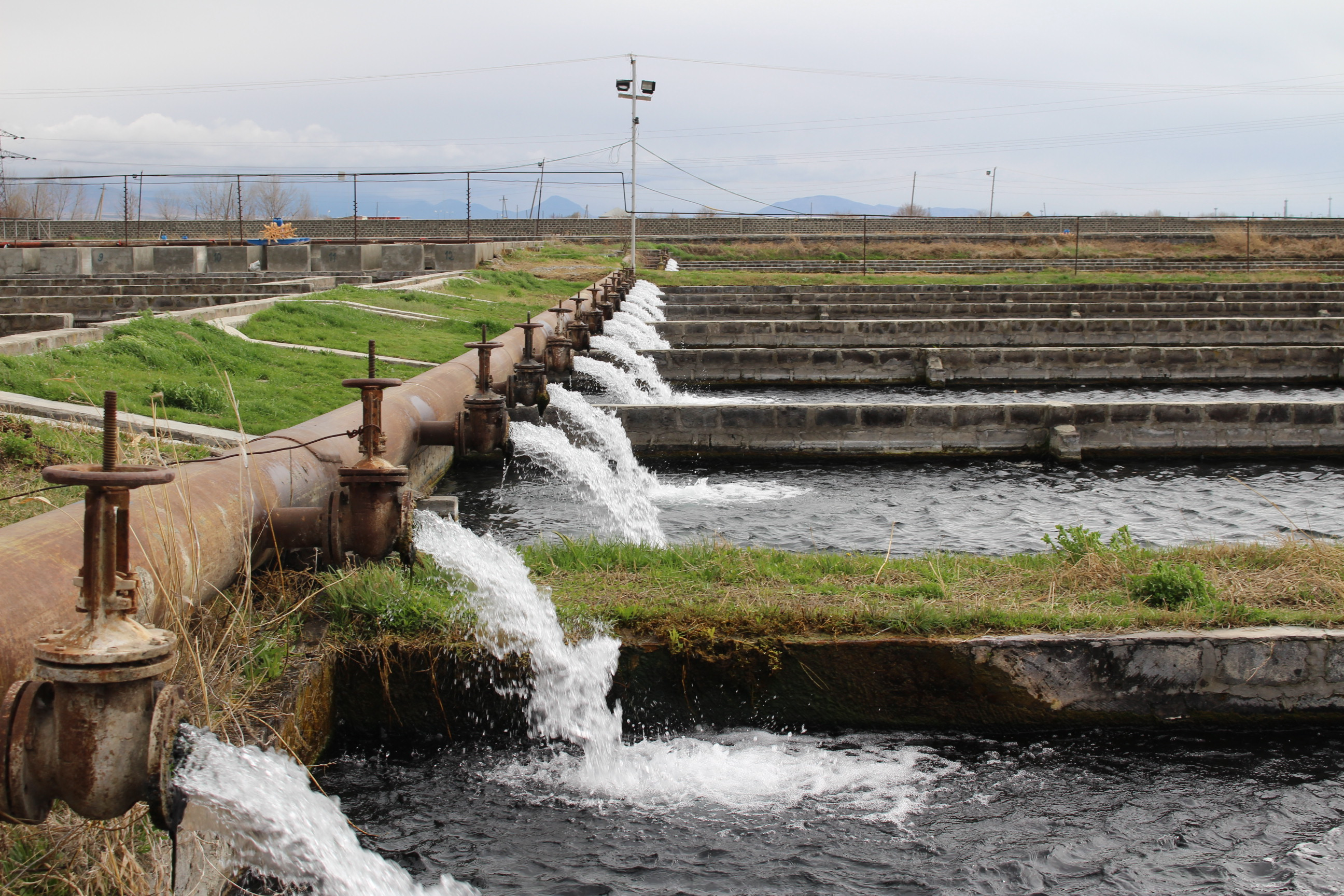 Masis Dzuk fish farm in Armenia.